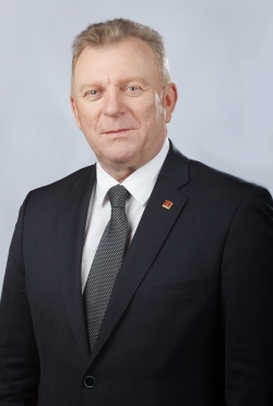 Mayor of Telšiai municipality (2011-2015, 2015) Vytautas Kleiva (b. 1959, d. 2015)